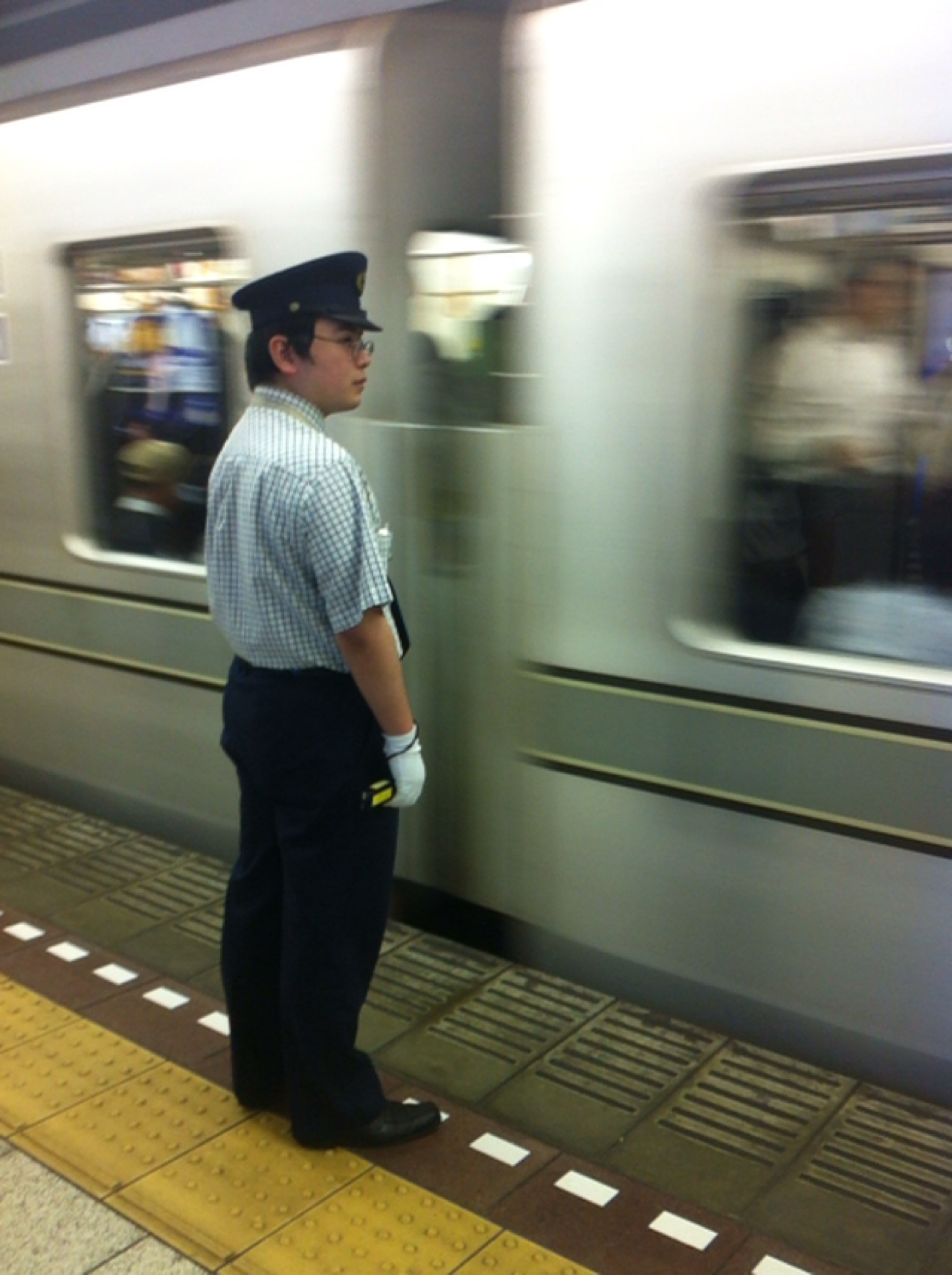 日比谷線の駅員のユニフォーム Hibiya line station staff uniform